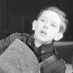 Promotional photograph of the Mercury Theatre production of Caesar, featuring (from left) Arthur Anderson as Lucius and Orson Welles as Brutus, in the tent scene